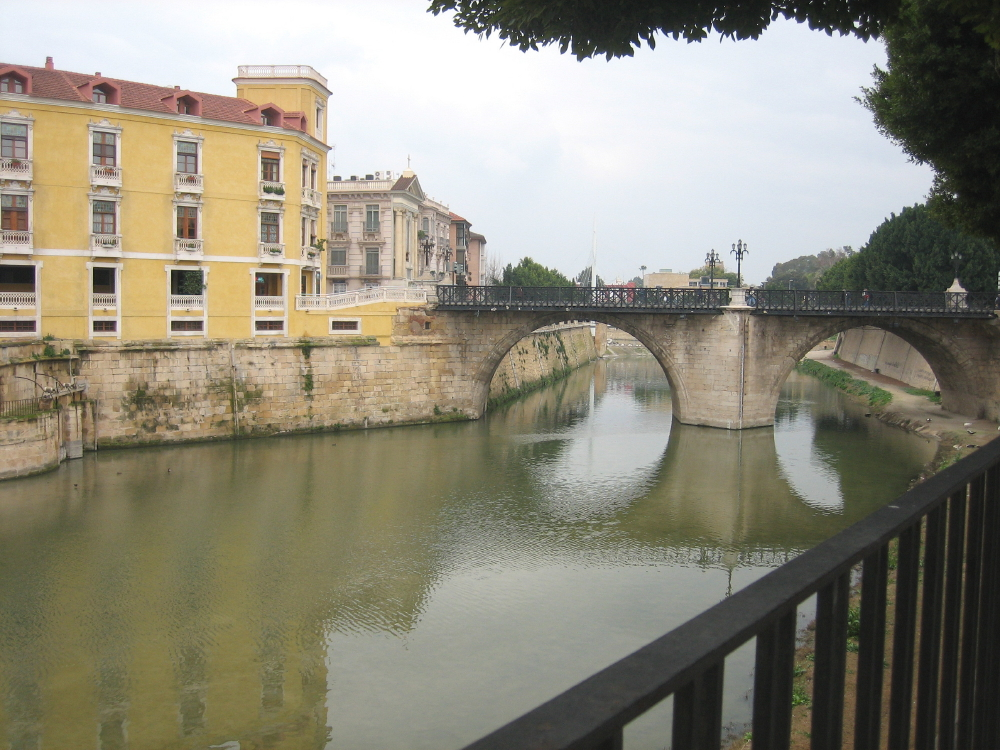 Murcia (Spain): Old Bridge over the Segura River. Picture realized by Rodriguillo on the 12/02/2006.